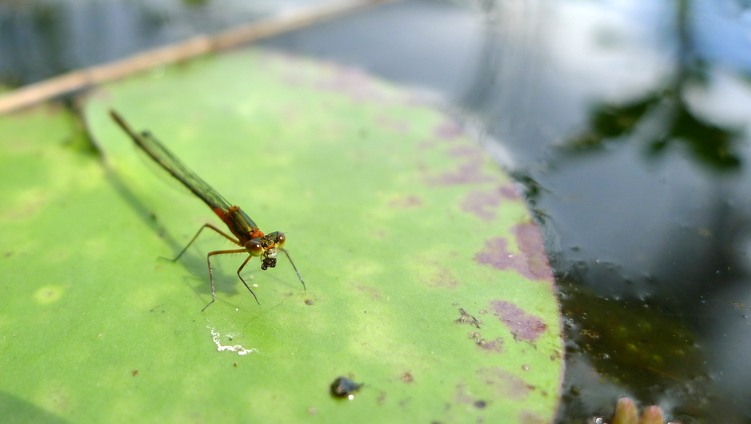 Female Splendid Longlegs, Austrocnemis splendida, a damselfly, on a lily pad eating. Turners Flat, NSW, Australia, December 2014.